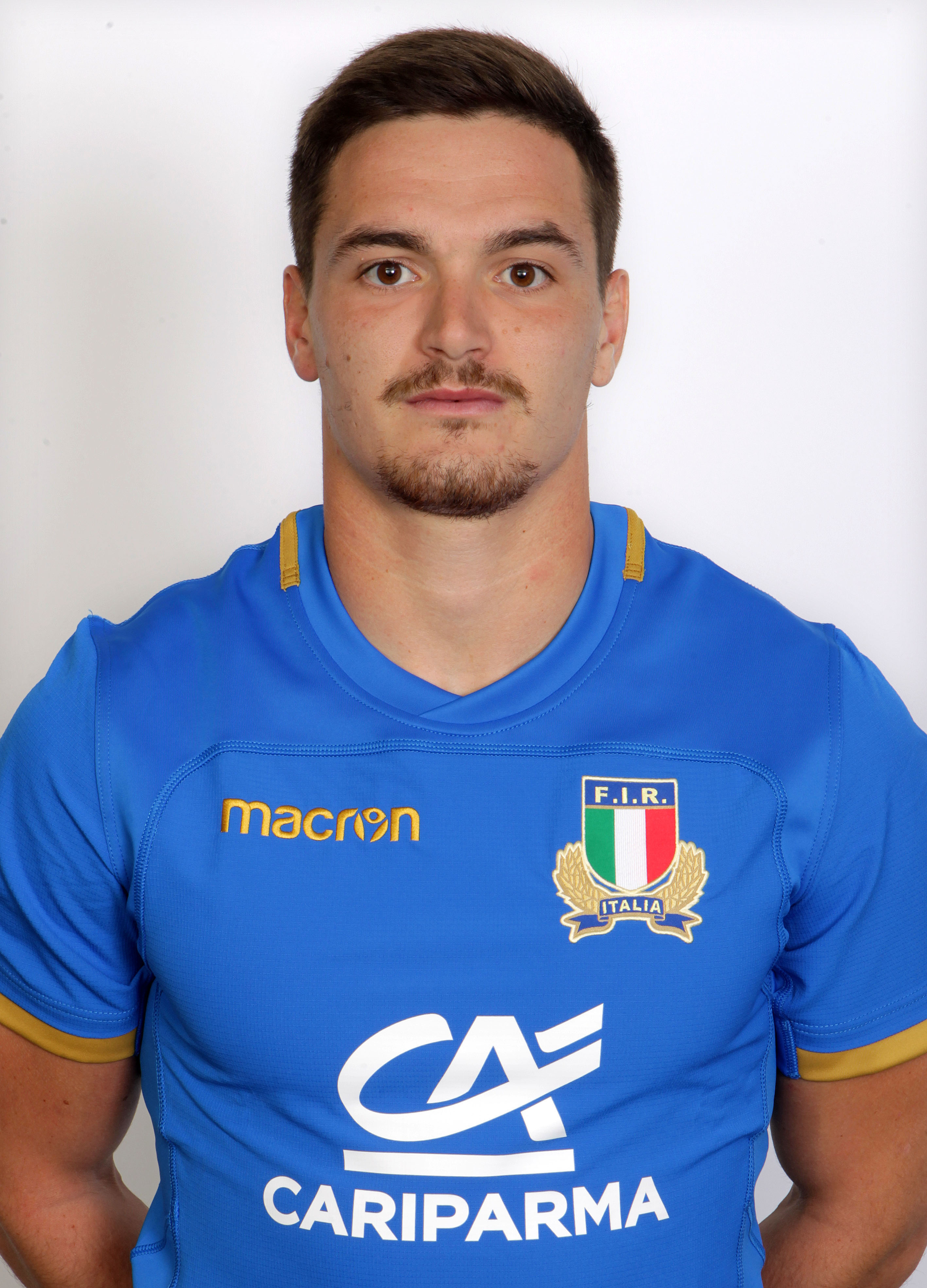 Cariparma Test match 2017, Parma 22/10/2017, raduno Nazionale italiana, profili individuali di atleti e staff, Carlo CANNA, apertura (Zebre Rugby, 22 caps).